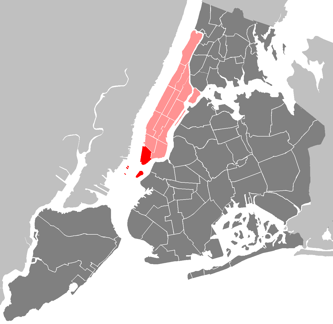 Category:Maps of New York City: New York City - Manhattan - Community Board 1.PNG